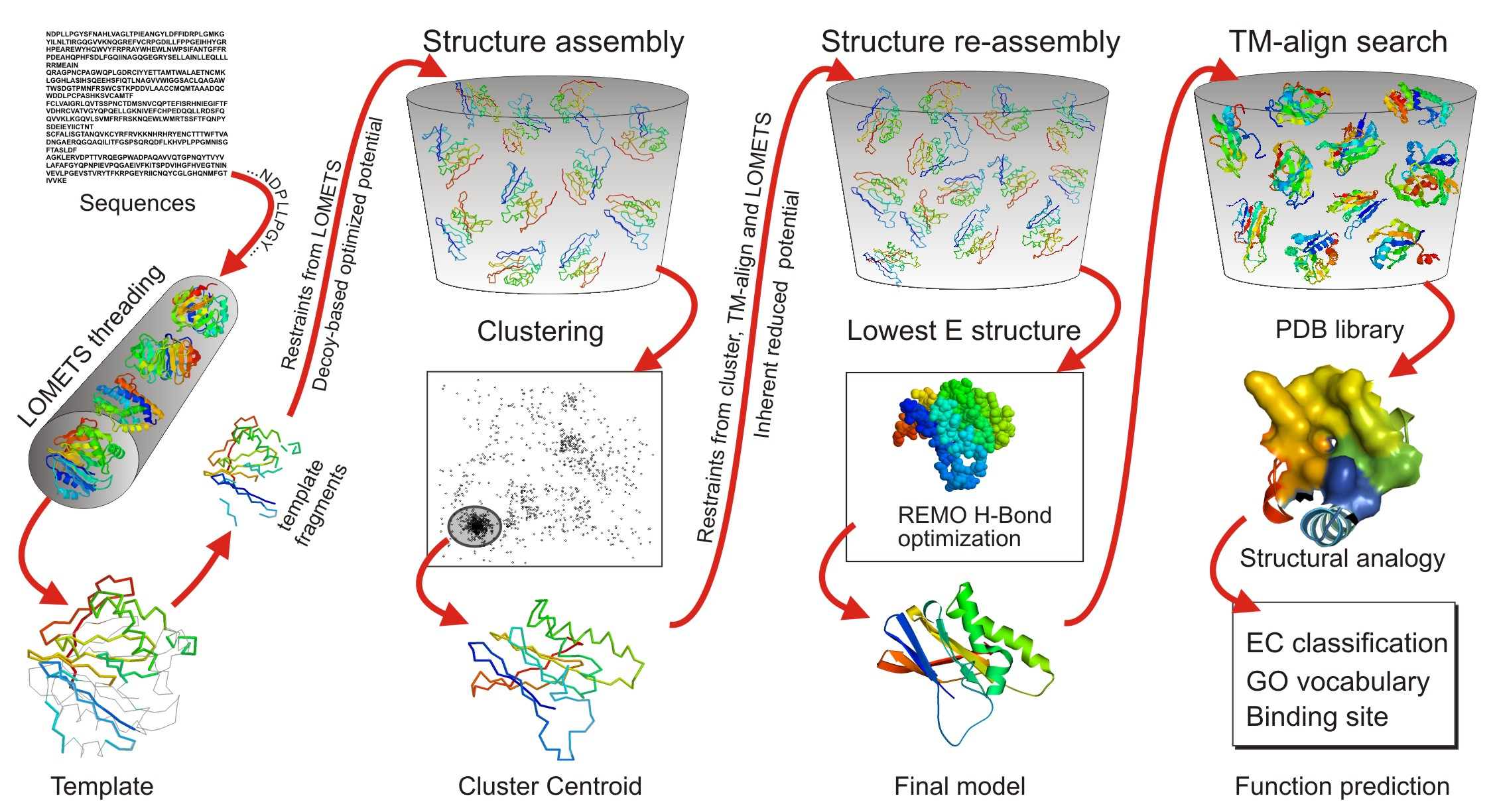 I-TASSER pipeline consists of four steps of template identification, fragment assembly simulation, model selection and structure refinement, and structure-based function annotation.